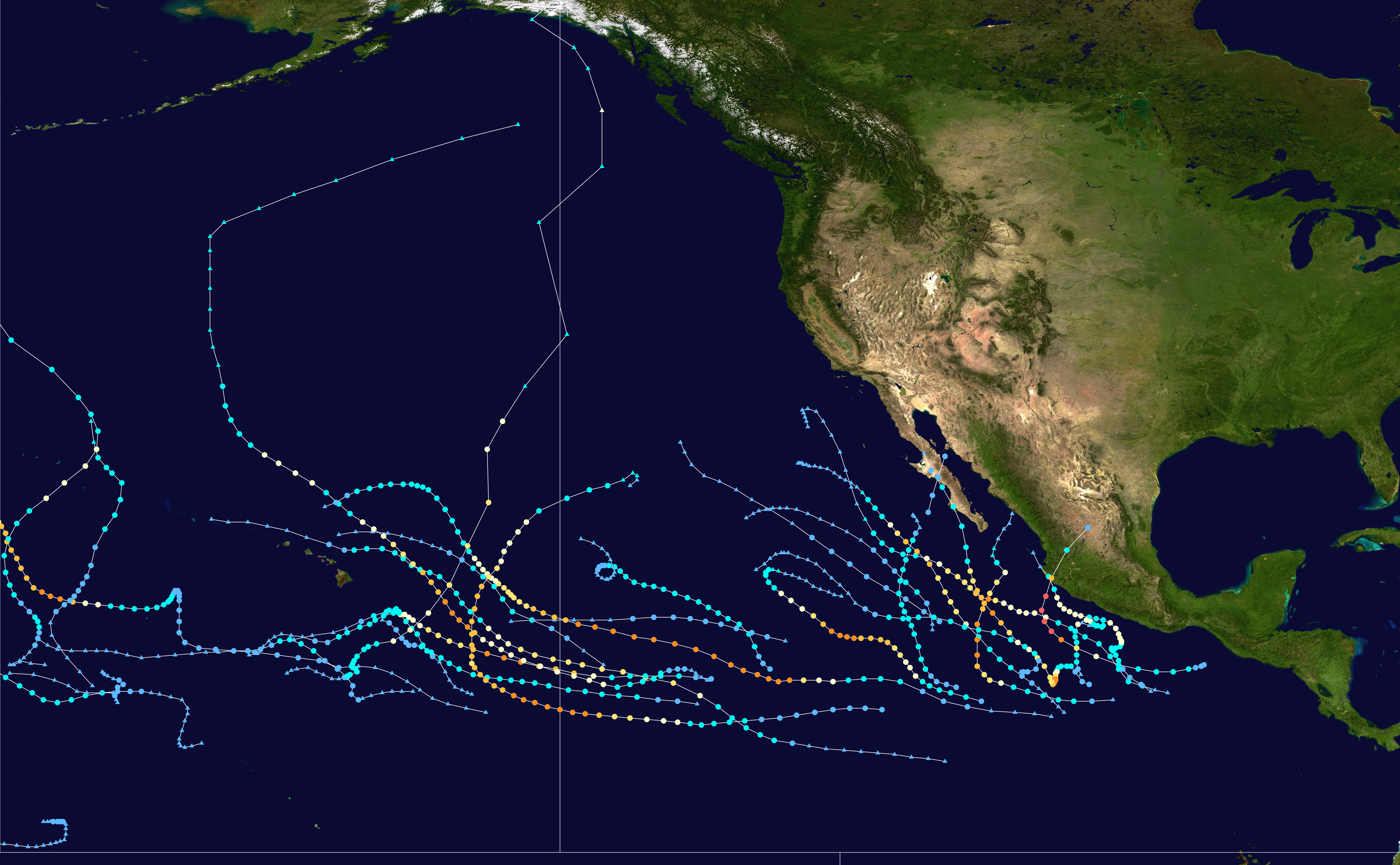 This map shows the tracks of all tropical cyclones in the 2015 Pacific hurricane season. The points show the location of each storm at 6-hour intervals. The colour represents the storm's maximum sustained wind speeds as classified in the Saffir-Simpson Hurricane Scale (see below), and the shape of the data points represent the type of the storm. Saffir–Simpson scale Tropical depression≤38 mph≤62 km/h Category 3111–129 mph178–208 km/h Tropical storm39–73 mph63–118 km/h Category 4130–156 mph209–251 km/h Category 174–95 mph119–153 km/h Category 5≥157 mph≥252 km/h Category 296–110 mph154–177 km/h Unknown Storm type Tropical cyclone Subtropical cyclone Extratropical cyclone / Remnant low / Tropical disturbance / Monsoon depression